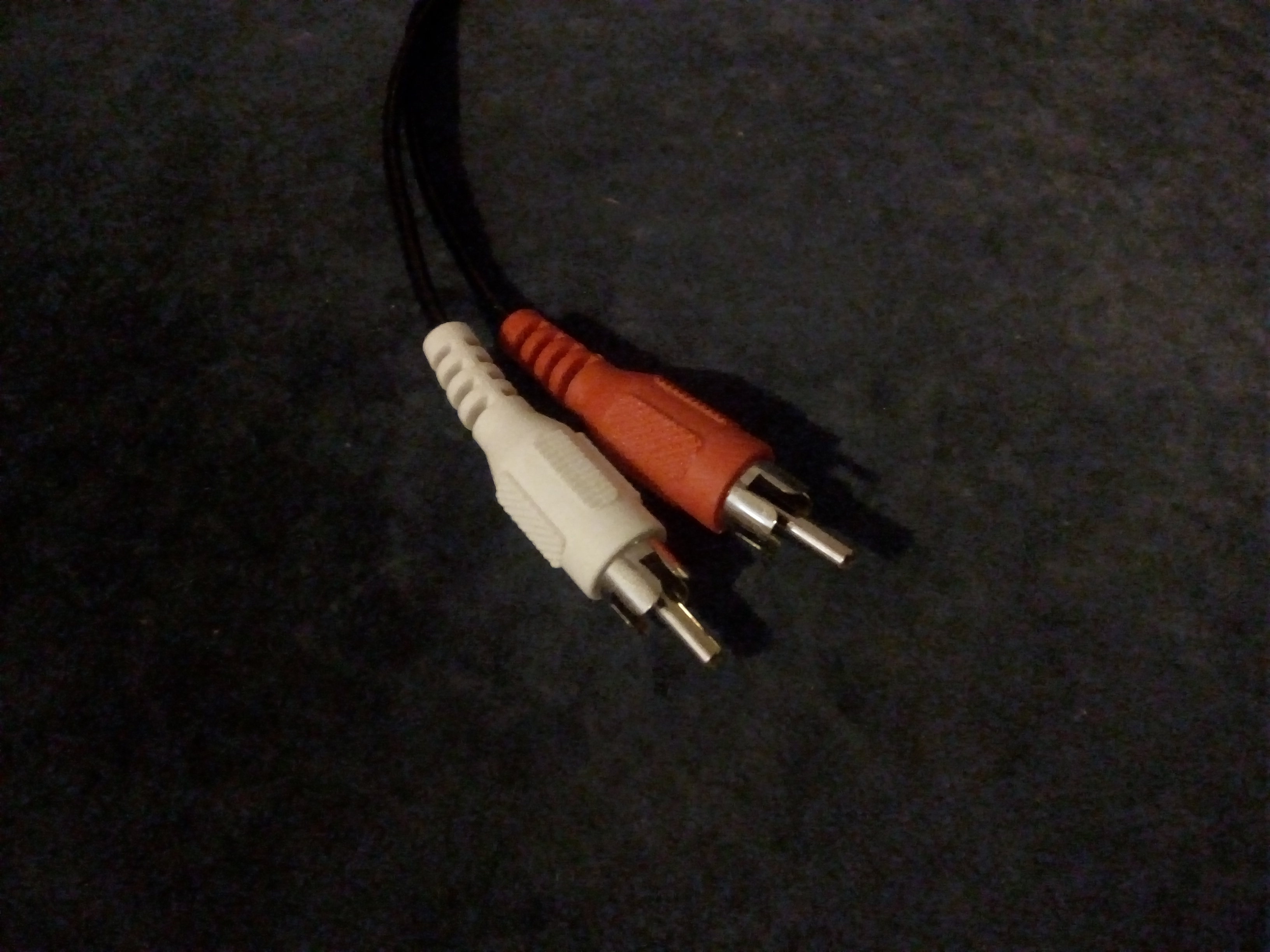 These are RCA-plugs